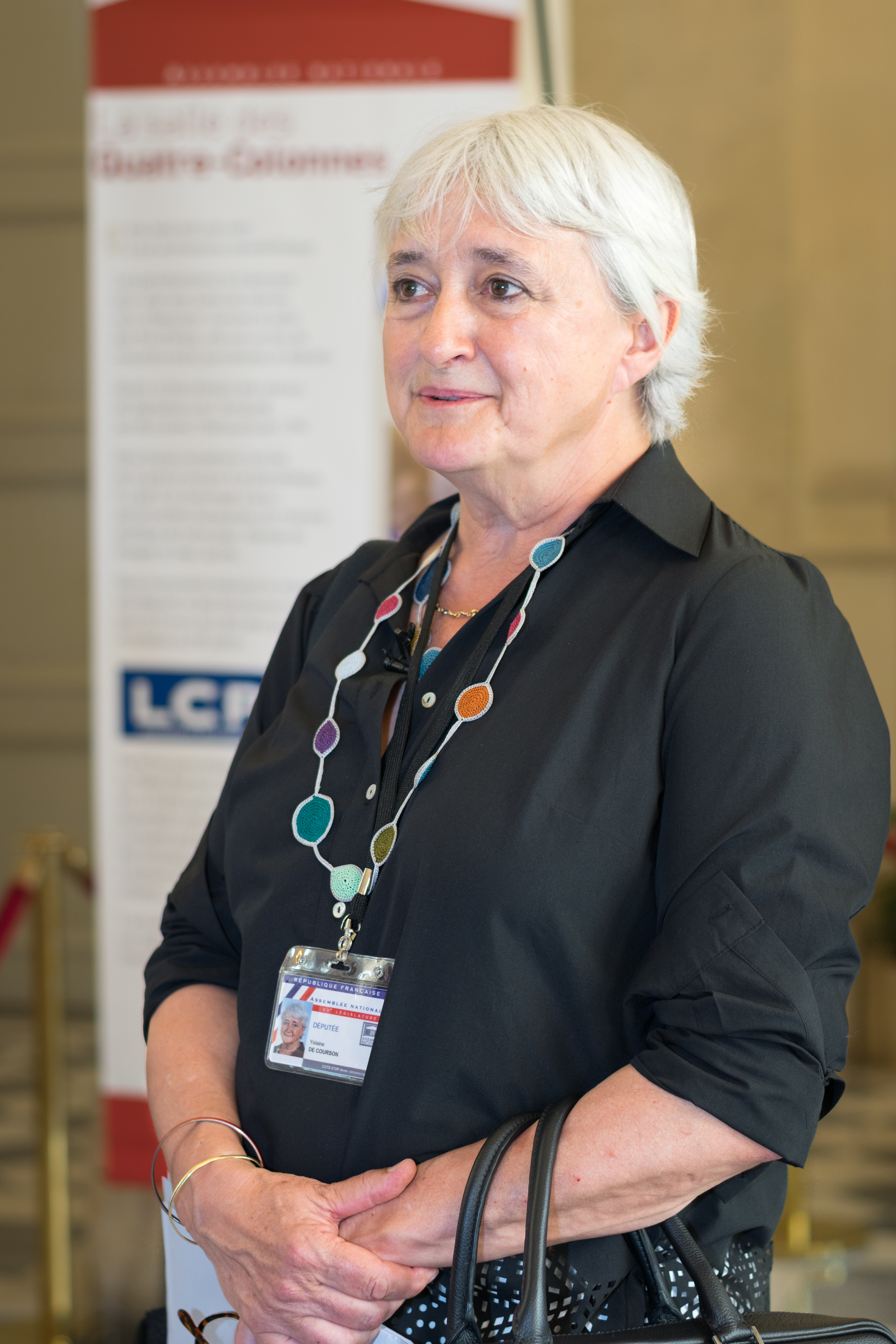 Yolaine de Courson in the salle des Quatres Colonnes of the Palais Bourbon (Paris, France).